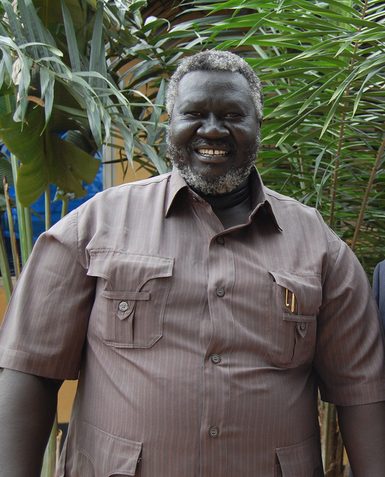 Malik Agar, Sudanese politician